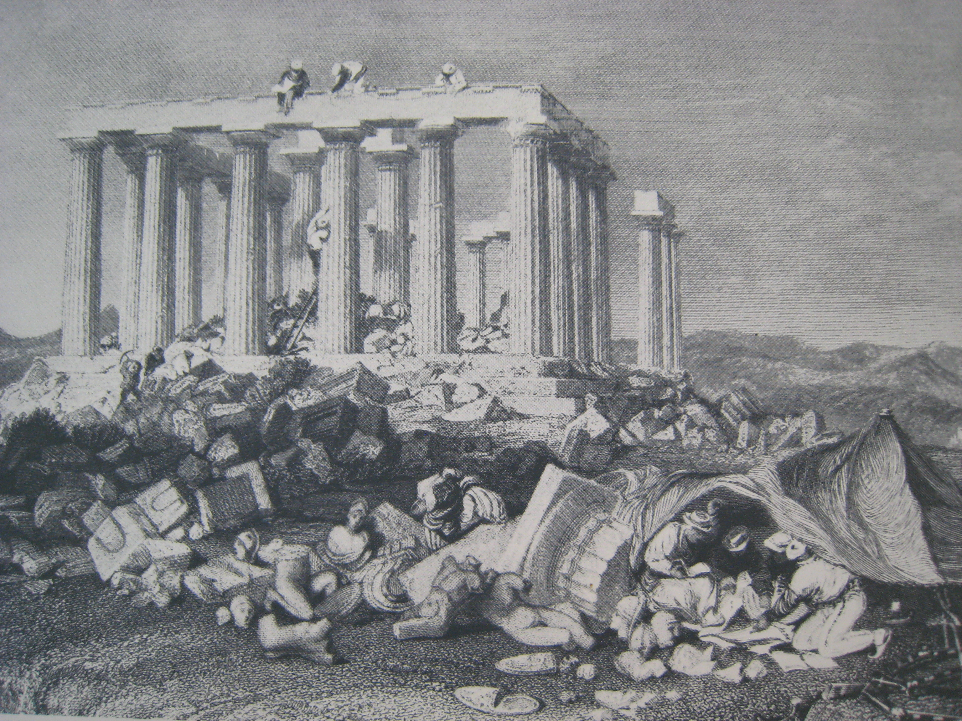 View of the temple during the excavations of 1811 in Cockerell publication.